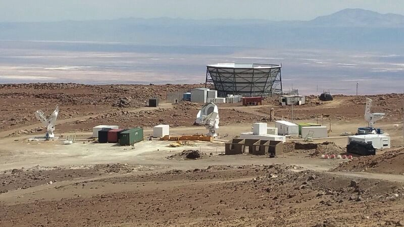 The site of the future Simons Array, with the Simons Array, Atacama Cosmology Telescope and POLARBEAR.